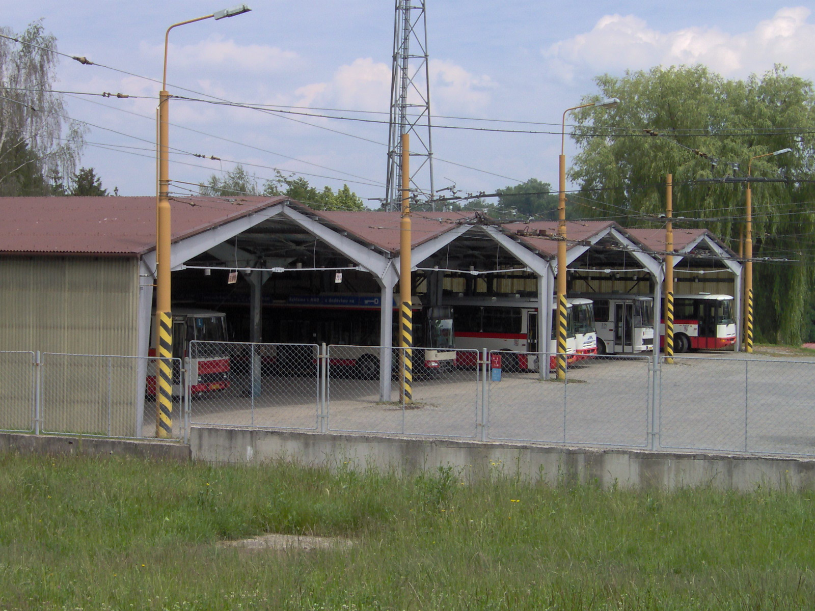 Trolleybus and bus depot in Jihlava